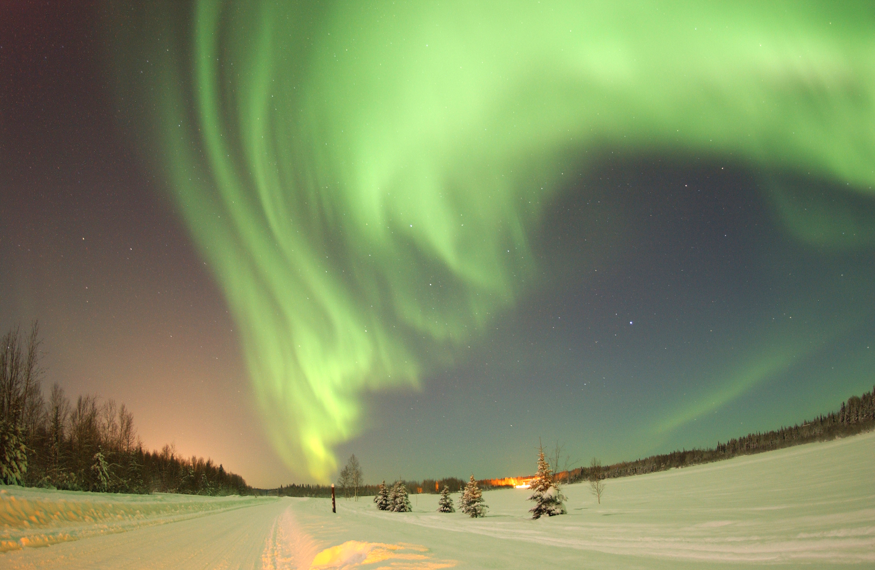 EIELSON AIR FORCE BASE, Alaska -- The Aurora Borealis, or Northern Lights, shines above Bear Lake. (64°42′N 148°30′W / 64.7°N 148.5°W: AFB east, Bear Lake west)